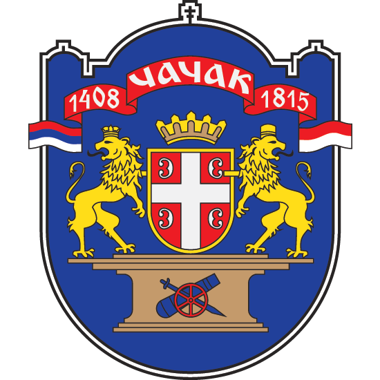 Coat of arms of Čačak, Serbia.